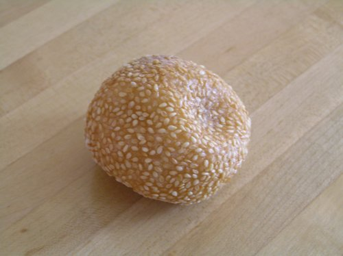 Zin Dou Jian Dao Chinese pastry